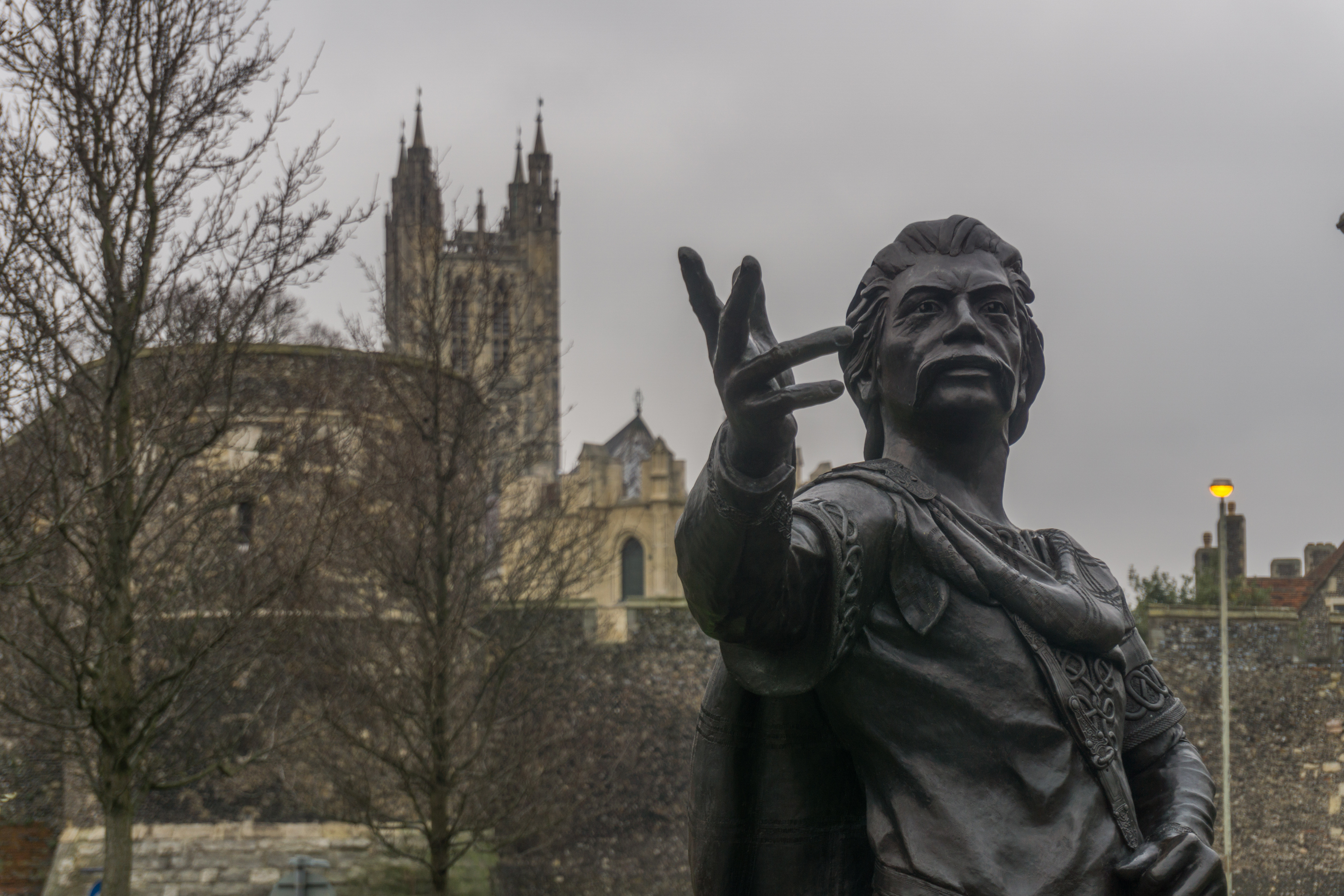 Statue of Ethelbert - King of Kent with Canterbury Cathedral in the background